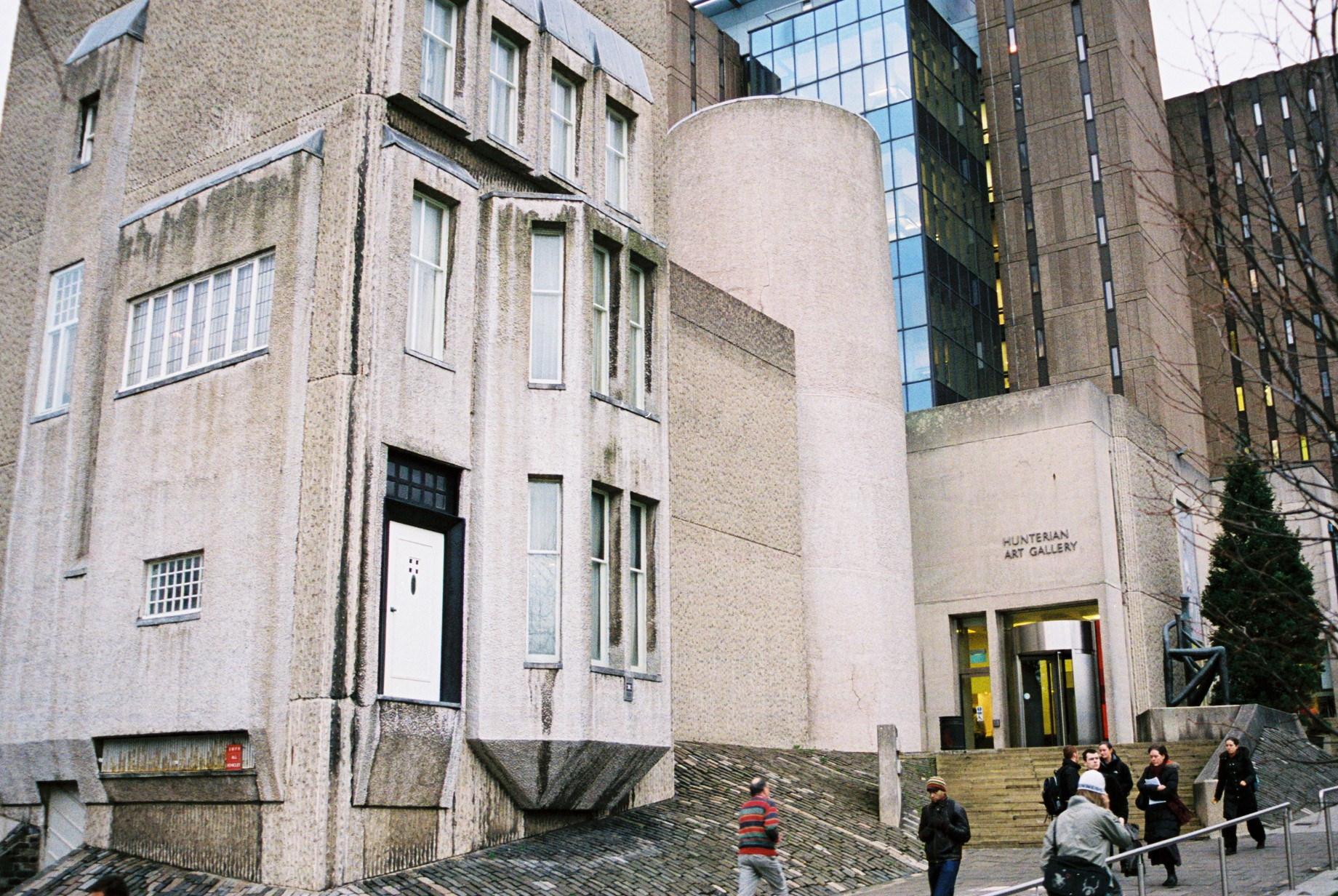 Hunterian Art Gallery, Glasgow, Scotland. Foreground: the Macintosh House with distinct "precarious" doorway. Background: the University of Glasgow Library.